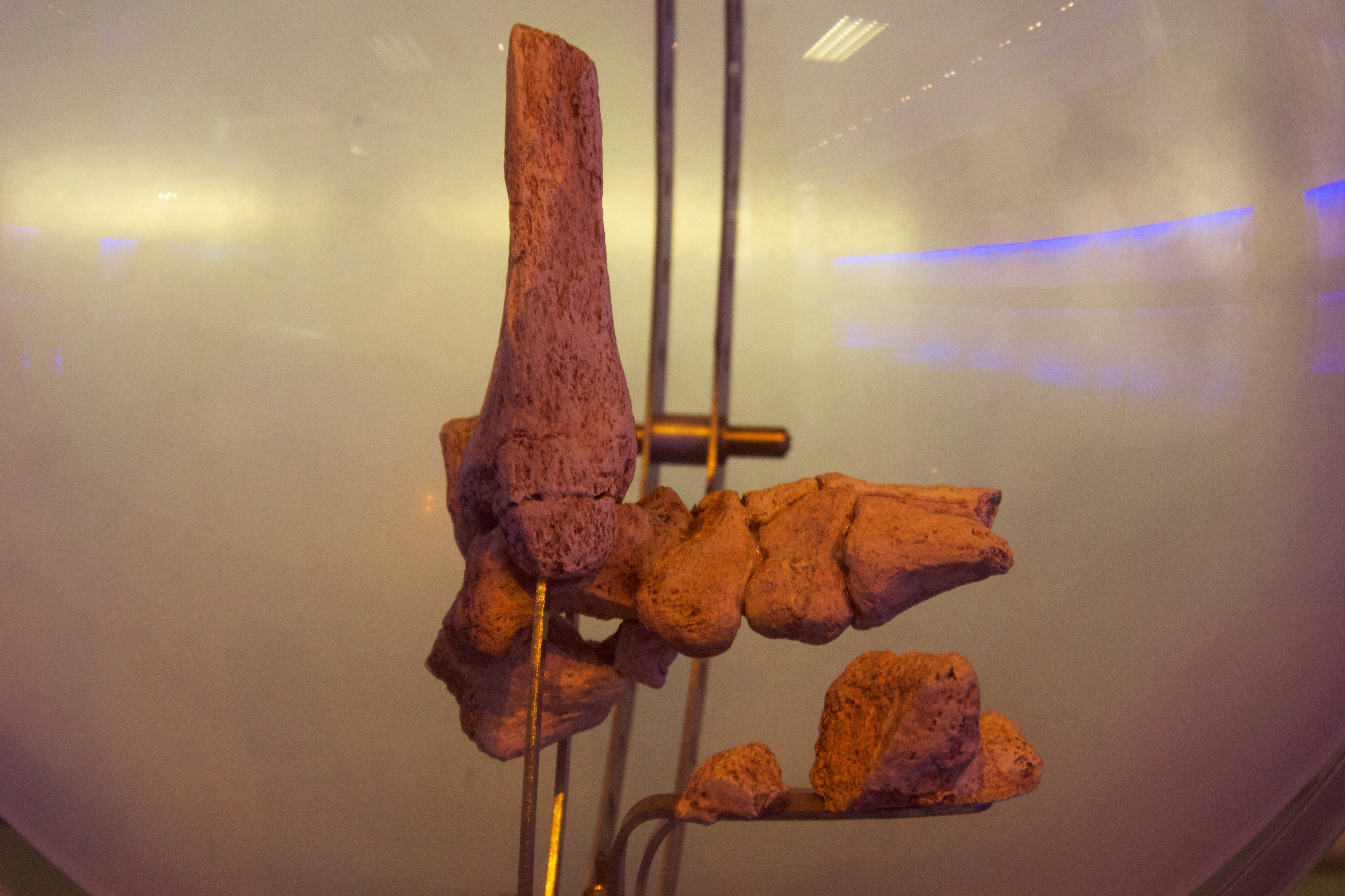 Australopithecus, "Little Foot" foot bones, (StW 573), Sterkfontein, 1994